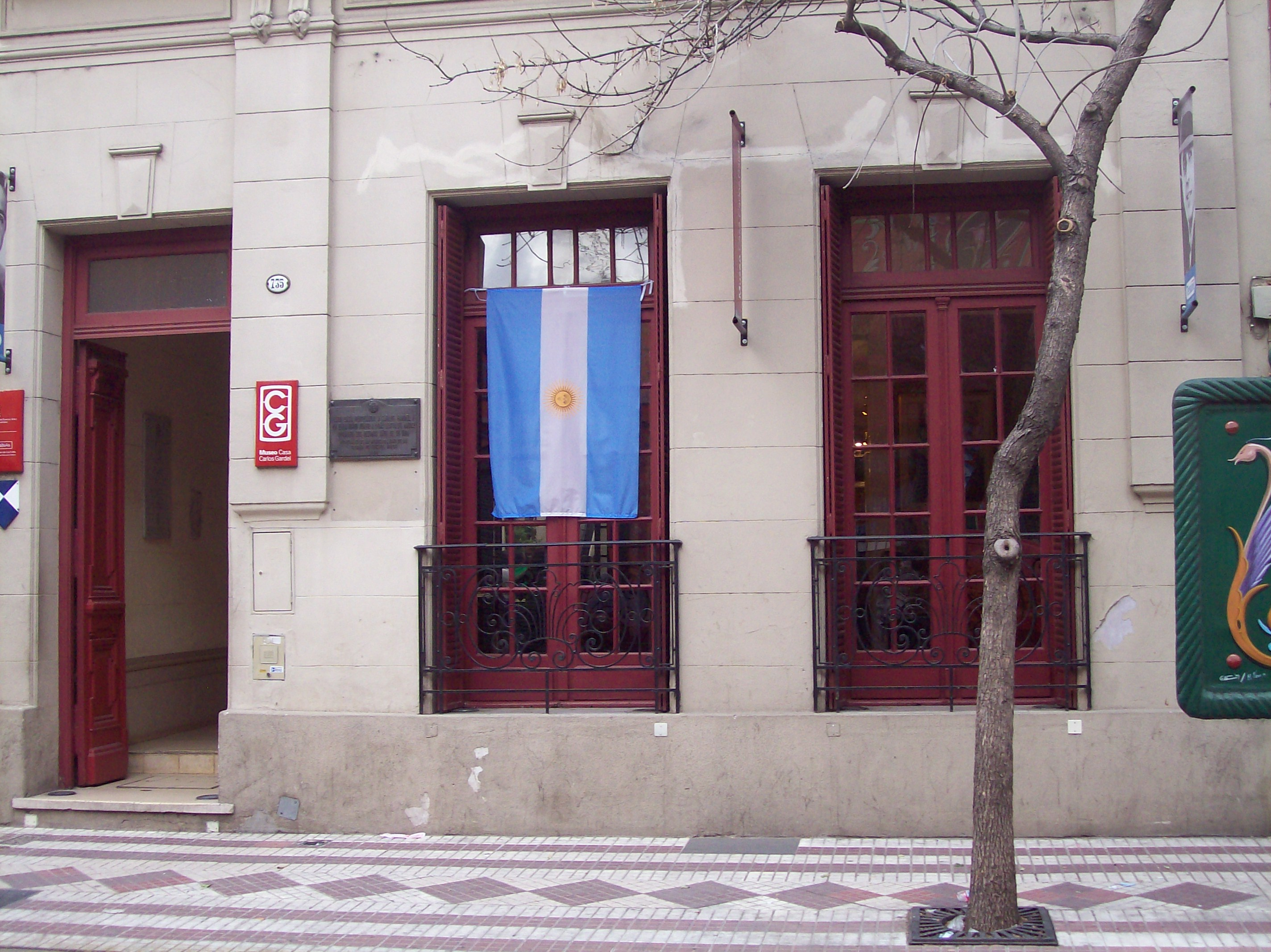 Carlos Gardel House Museum. Now it's used to dictate tango classes.